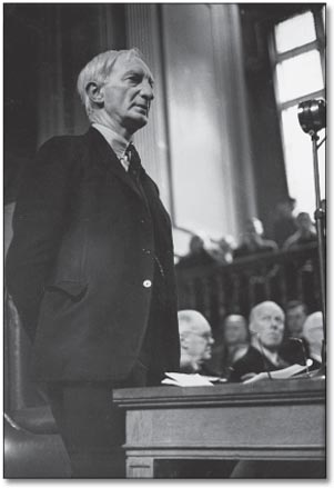 William Beveidge addressing a meeting at Caxton Hall in 1948.